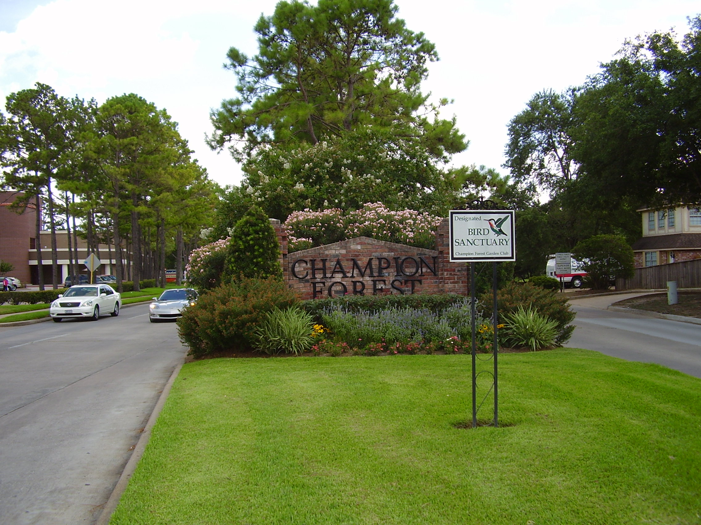 Champion Forest sign